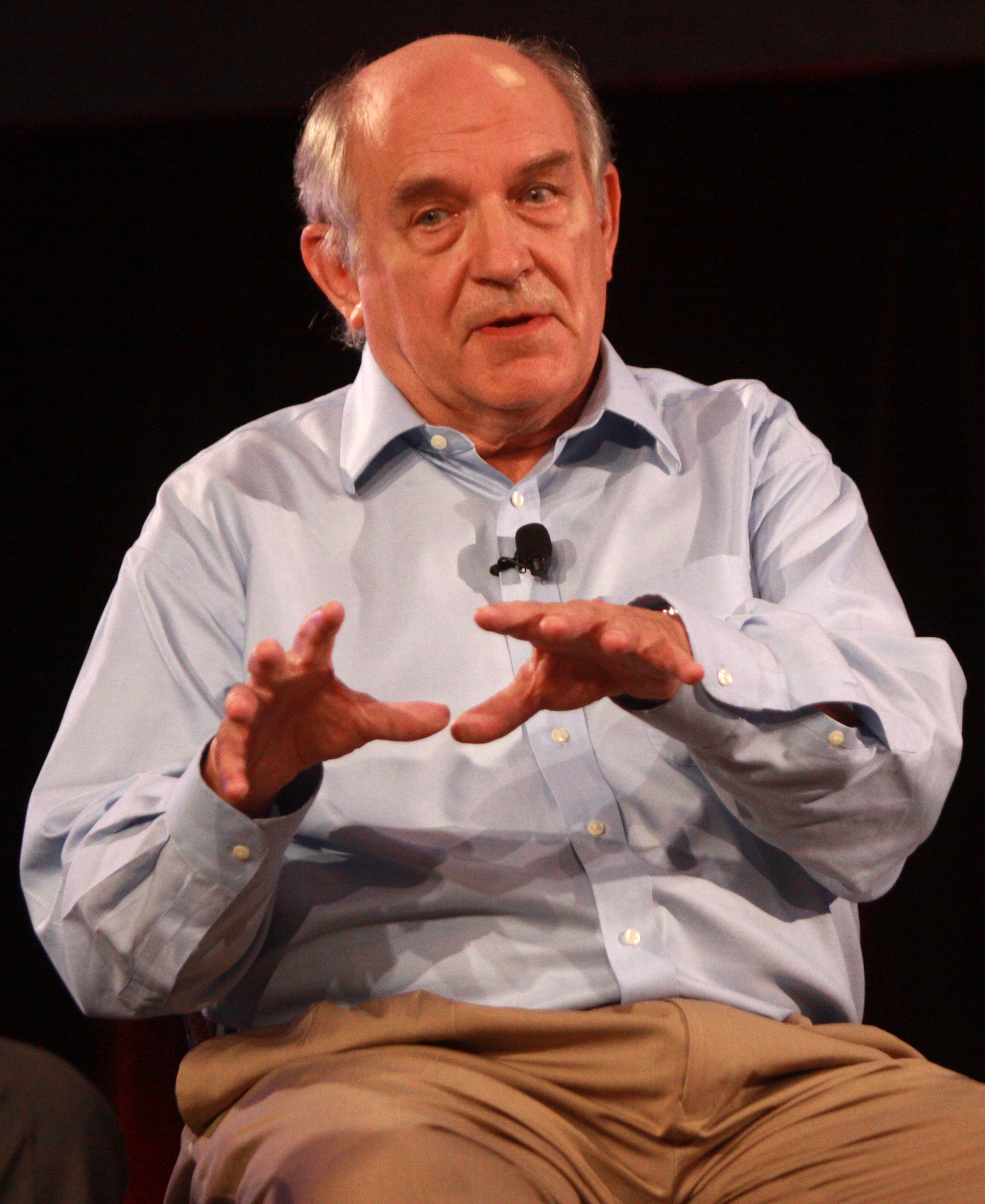 Charles Murray speaking at the 2013 FreedomFest in Las Vegas, Nevada.